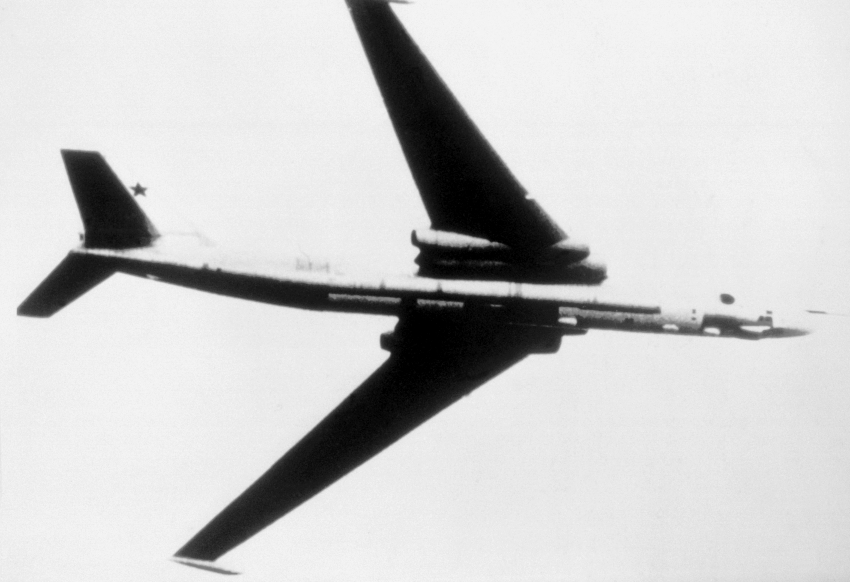 A Soviet Air Force Myasishchev M-4/3M bomber (NATO reporting name "Bison") in flight.